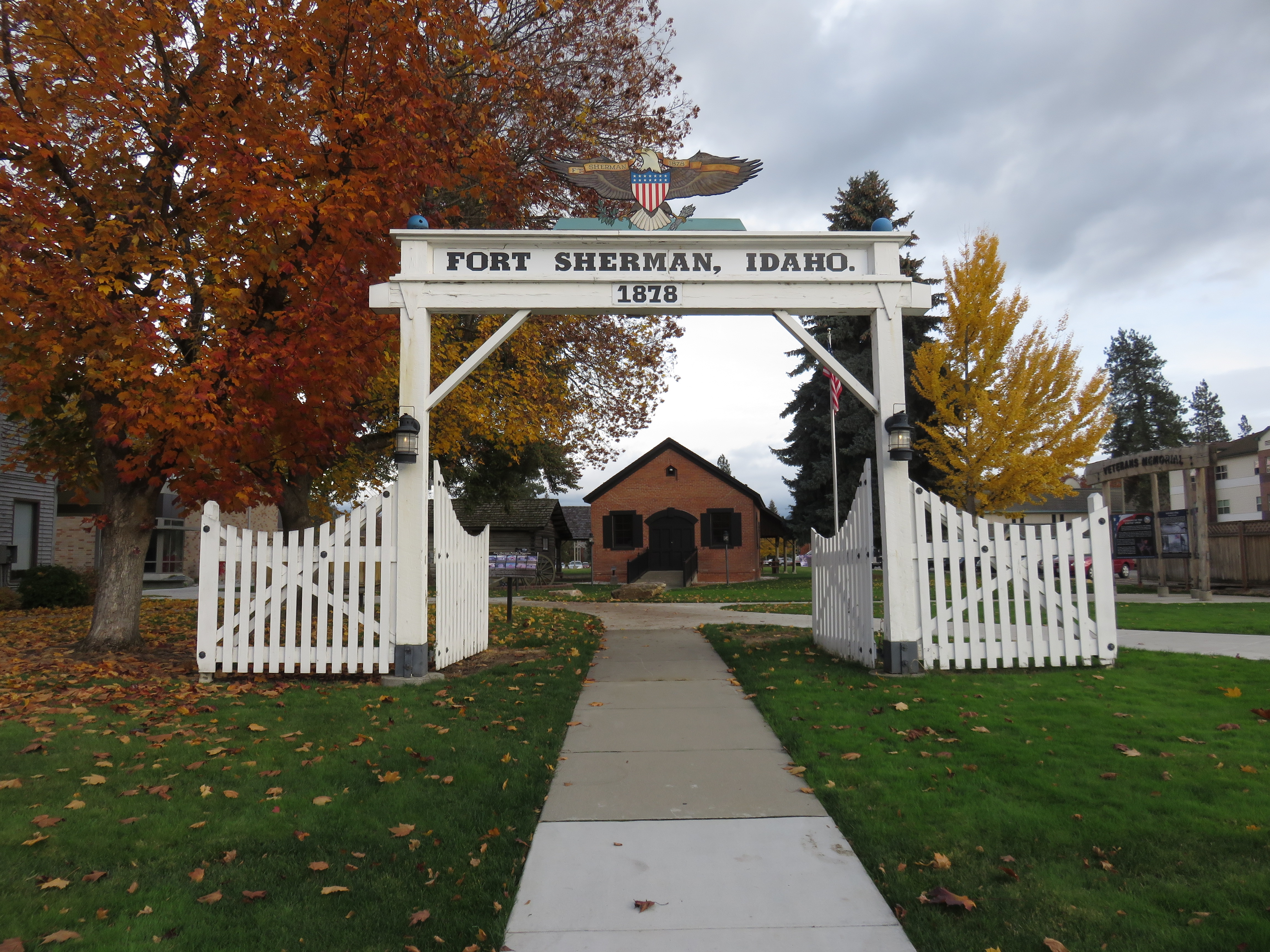 Gate of historical Fort Sherman on the campus of North Idaho College in Coeur d'Alene, Idaho in 2018